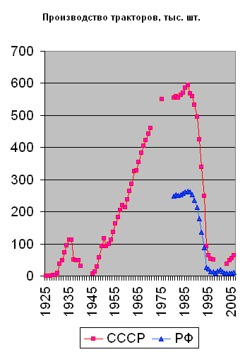 Production of tractors in USSR and Russian Federation, thousands